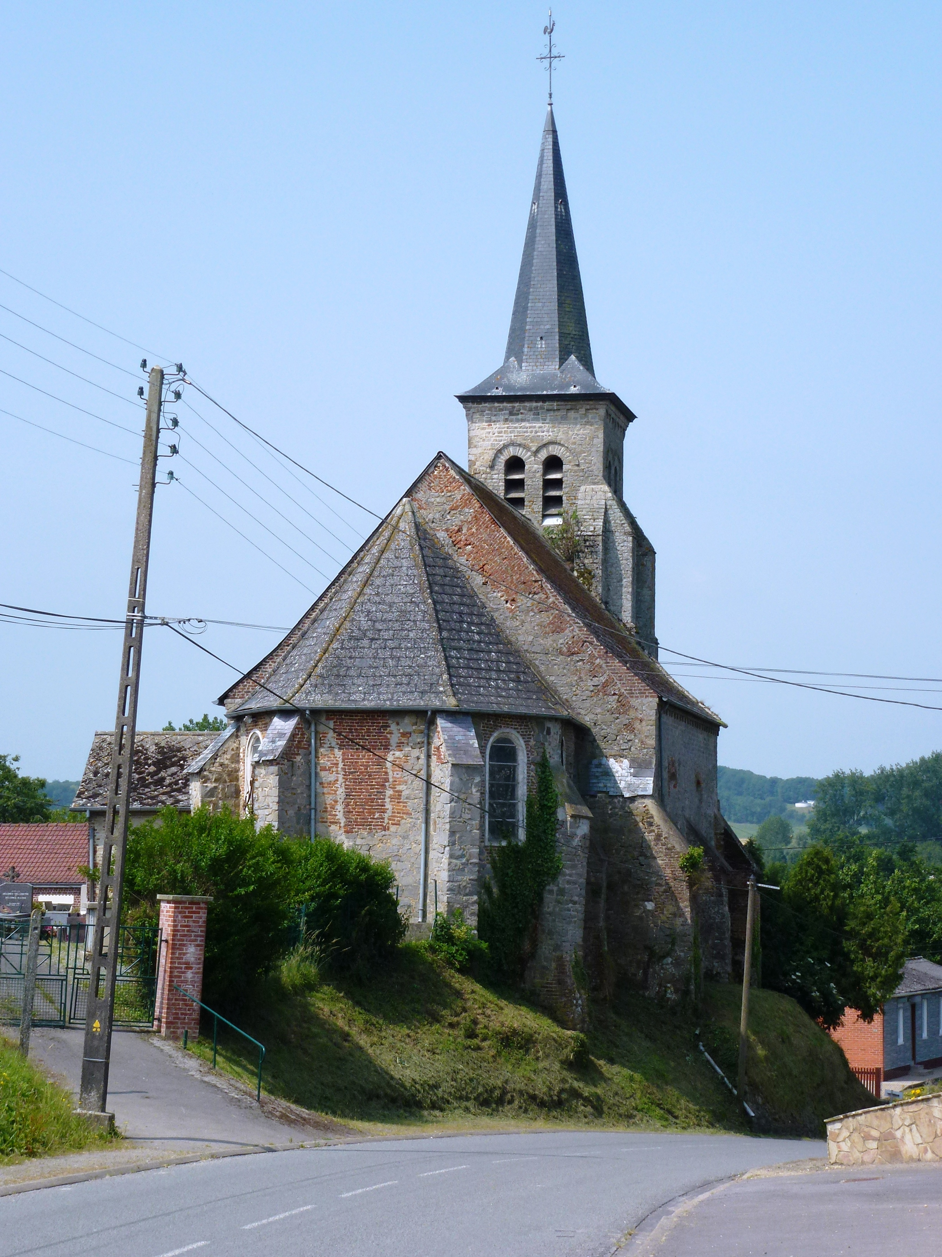 Matringhem